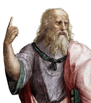 Plato